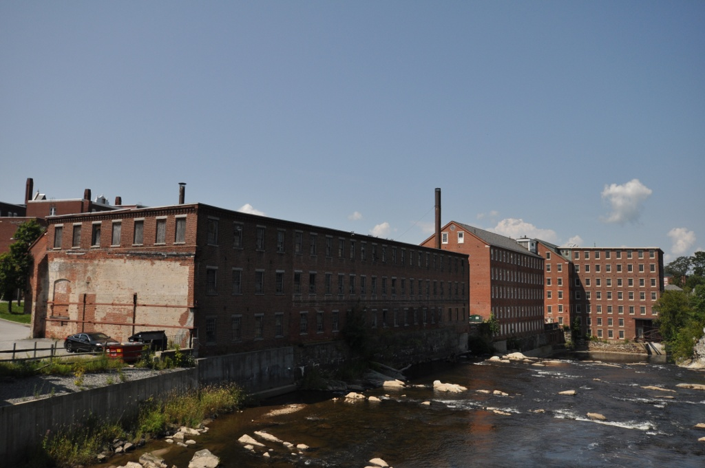 Monadnock Mills, Claremont, New Hampshire. View from the Sugar River.